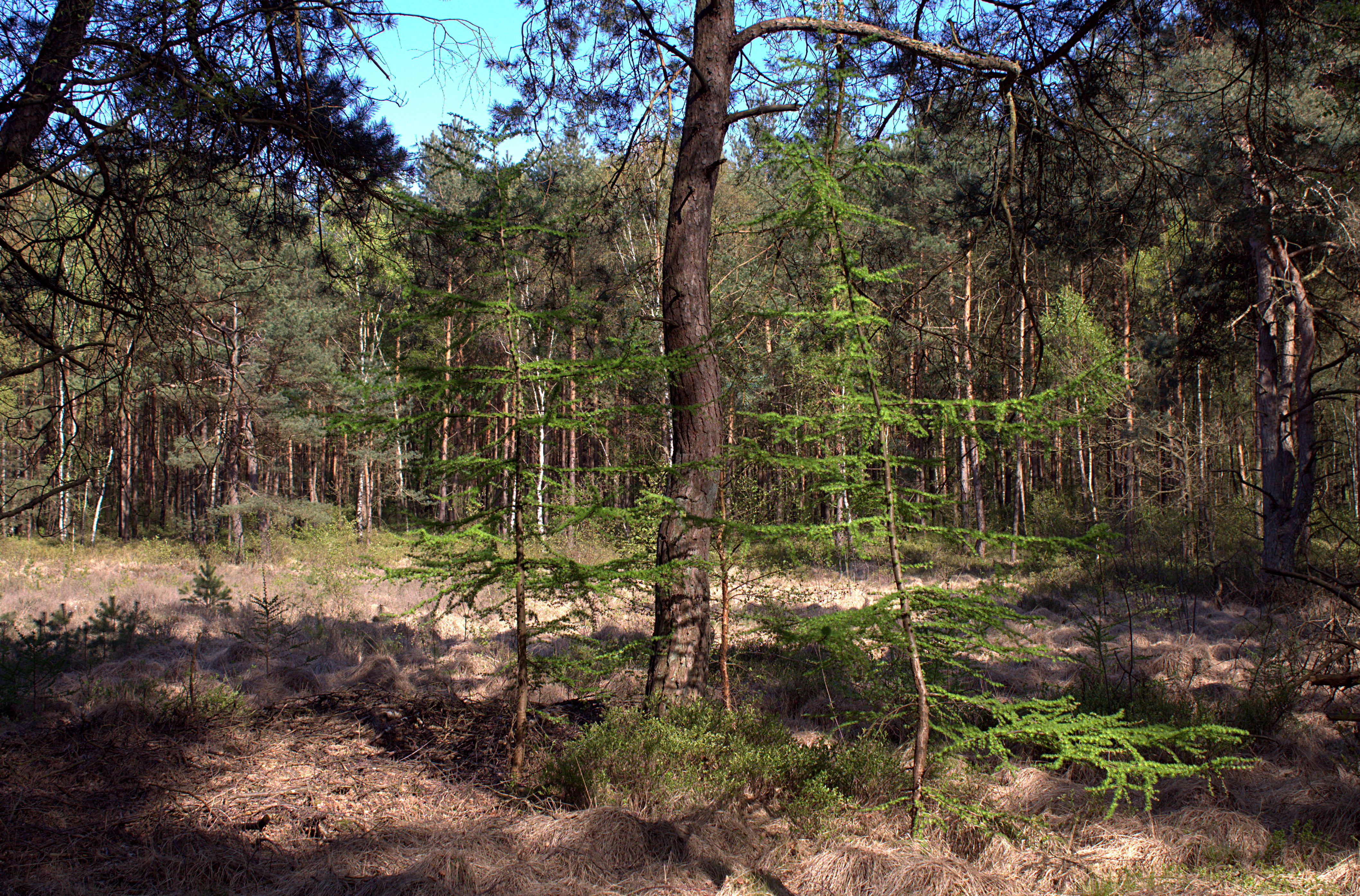 A schlatt (flat pond) west of the Gierenberg dune in Sandhatten, Hatten municipality, Germany, after becoming silted up, turned into a fen, and overgrown with bog cotton.